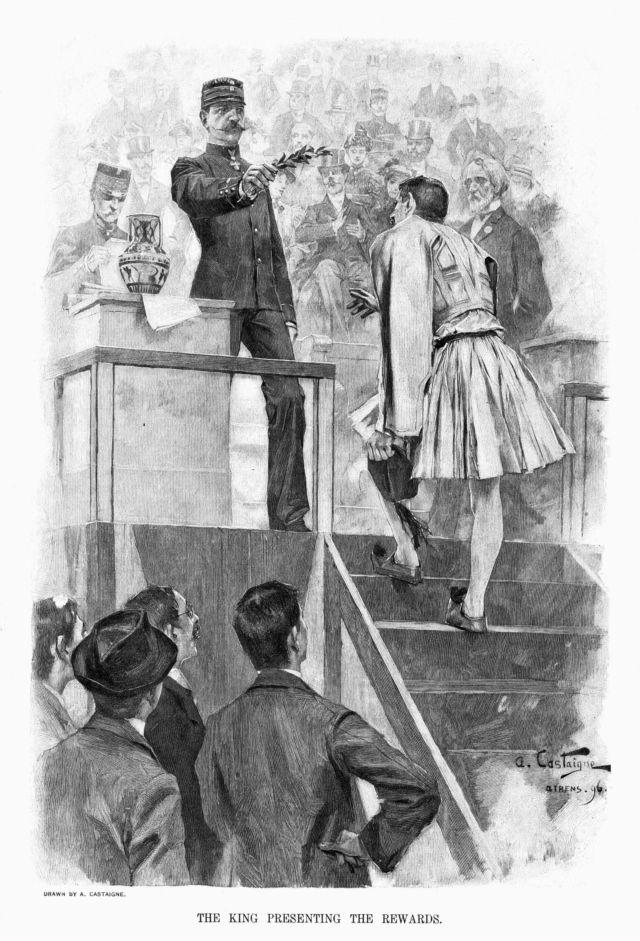 King George I of Greece presenting awards at the 1896 Olympics